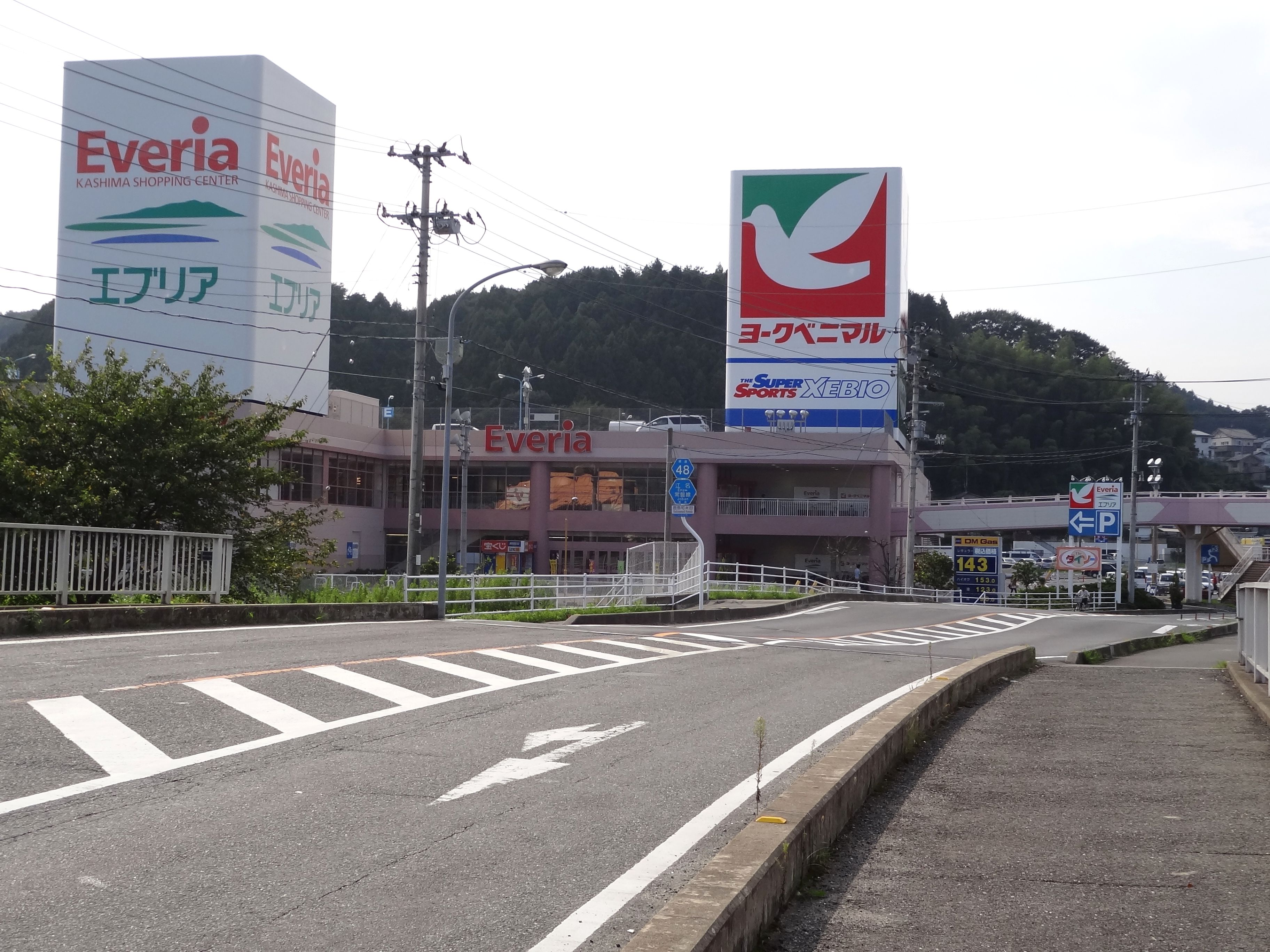 The Fukushima Prefectural Road Route 48 in Kashimamachi Komoda, Iwaki City